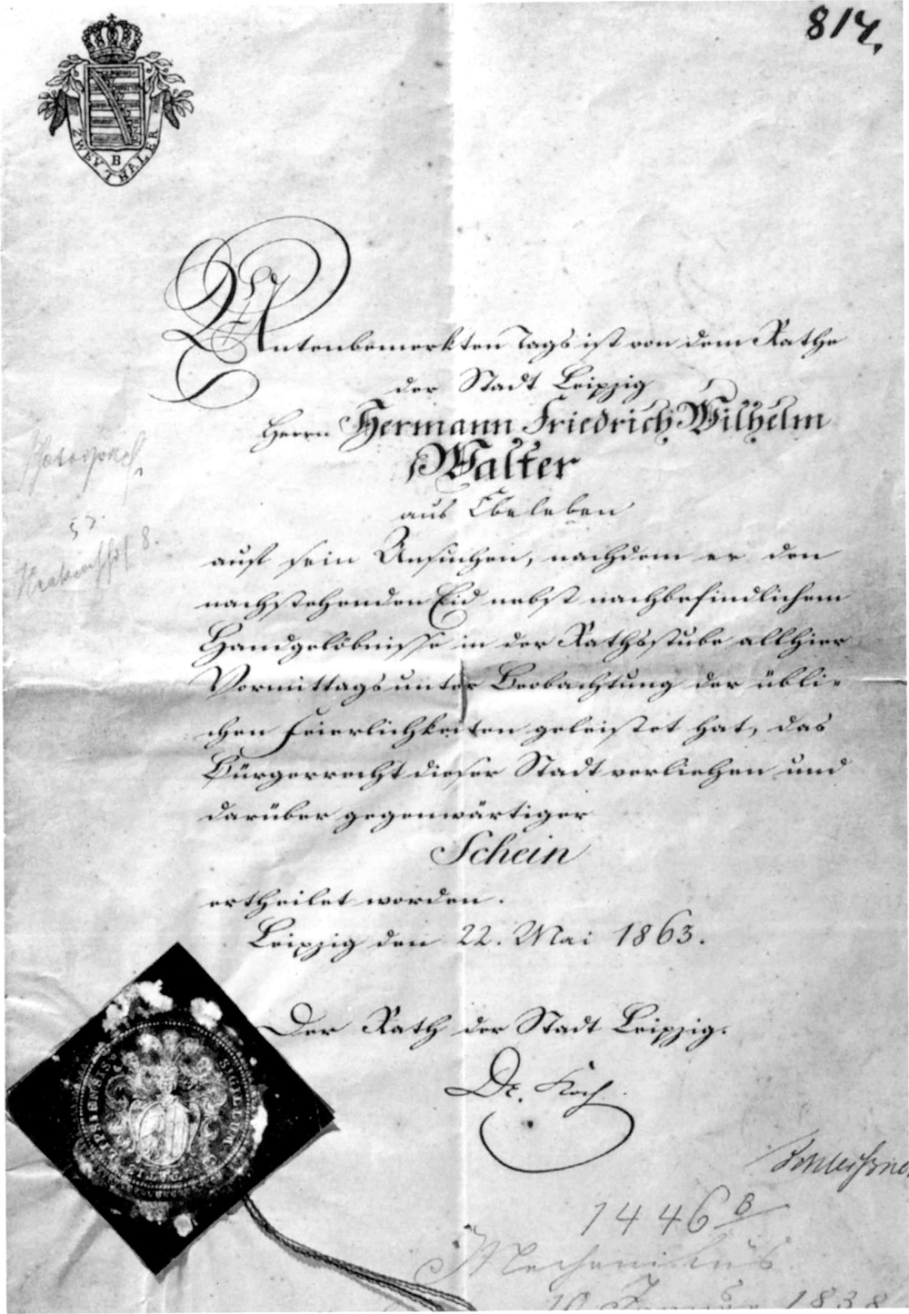 Letter from the Citizens' Council of the City of Leipzig, 22 May 1863 for Hermann Walter